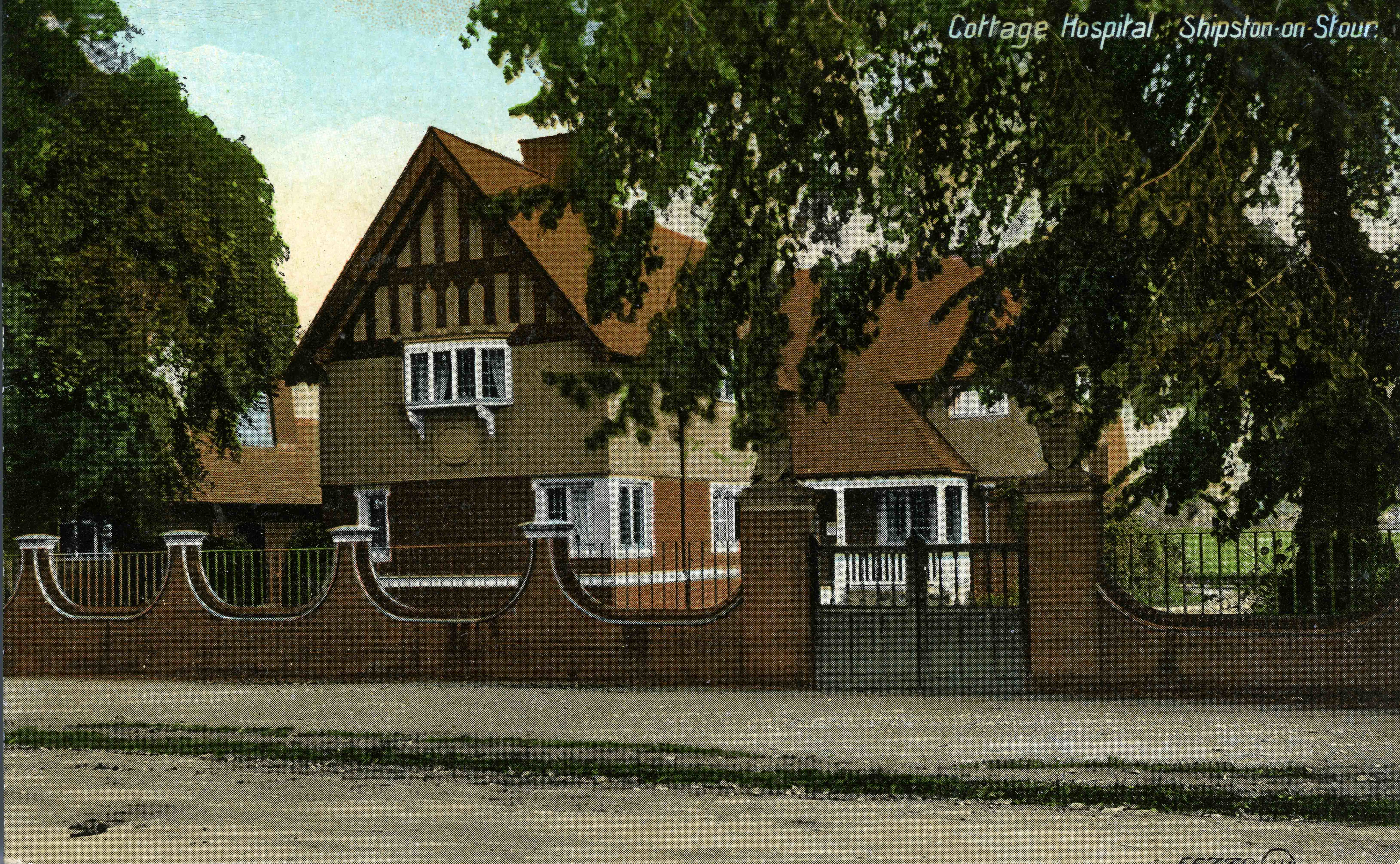 Postcard depicting 'Cottage Hospital, Shipston-on-Stour', (the Ellen Badger Hospital) dated by hand "May 1 1914".